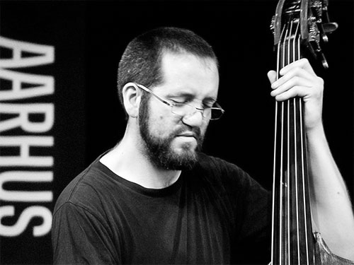 Robert Landfermann at Aarhsu Jazz Festival 2013